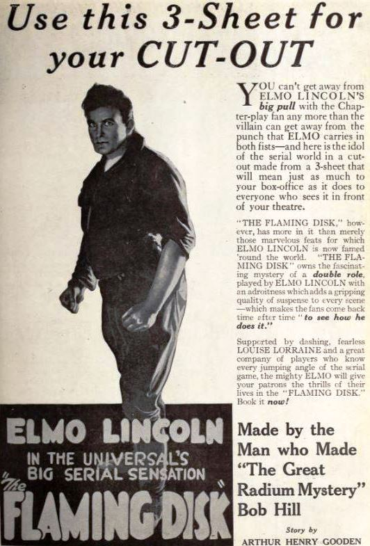 Advertisement for the American film serial The Flaming Disc (1920), here titled The Flaming Disk, with Elmo Lincoln, on page 3 of the October 16, 1920 Exhibitors Herald.